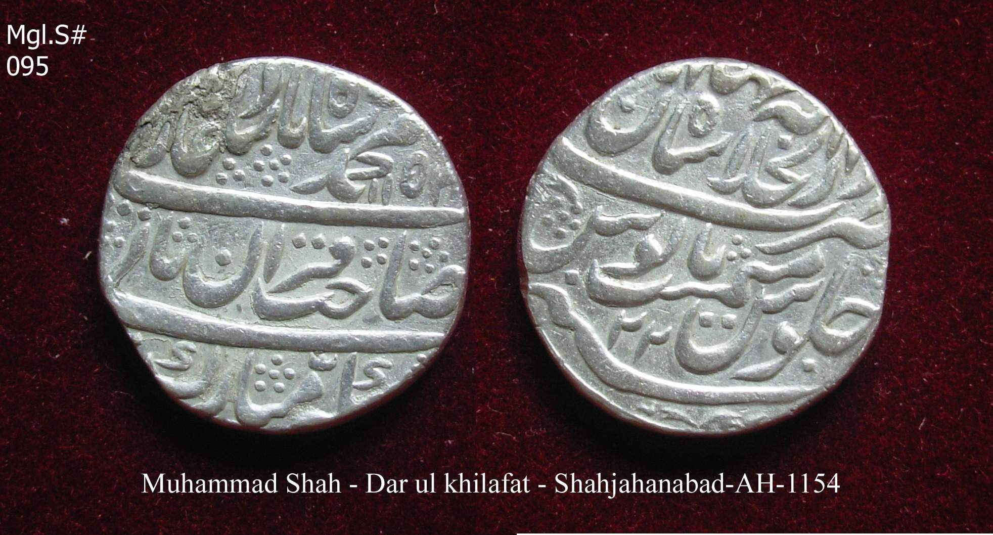 Silver rupee of Muhammad shah from my collection